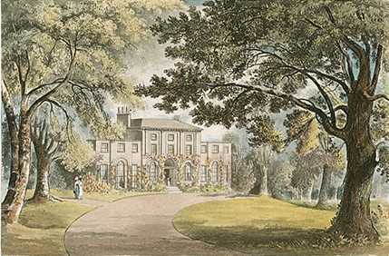 Holly Grove House, Windsor, England, residence of Theodore Henry Broadhead (1767–1820).